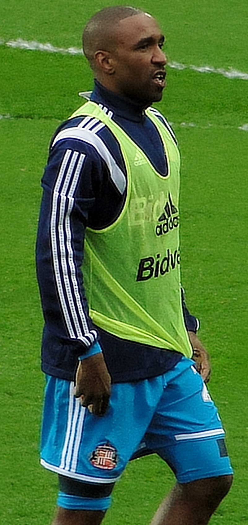 Sunderland player, Jermain Defoe warming-up before their Premier League defeat to West Ham United at the Boleyn Ground.